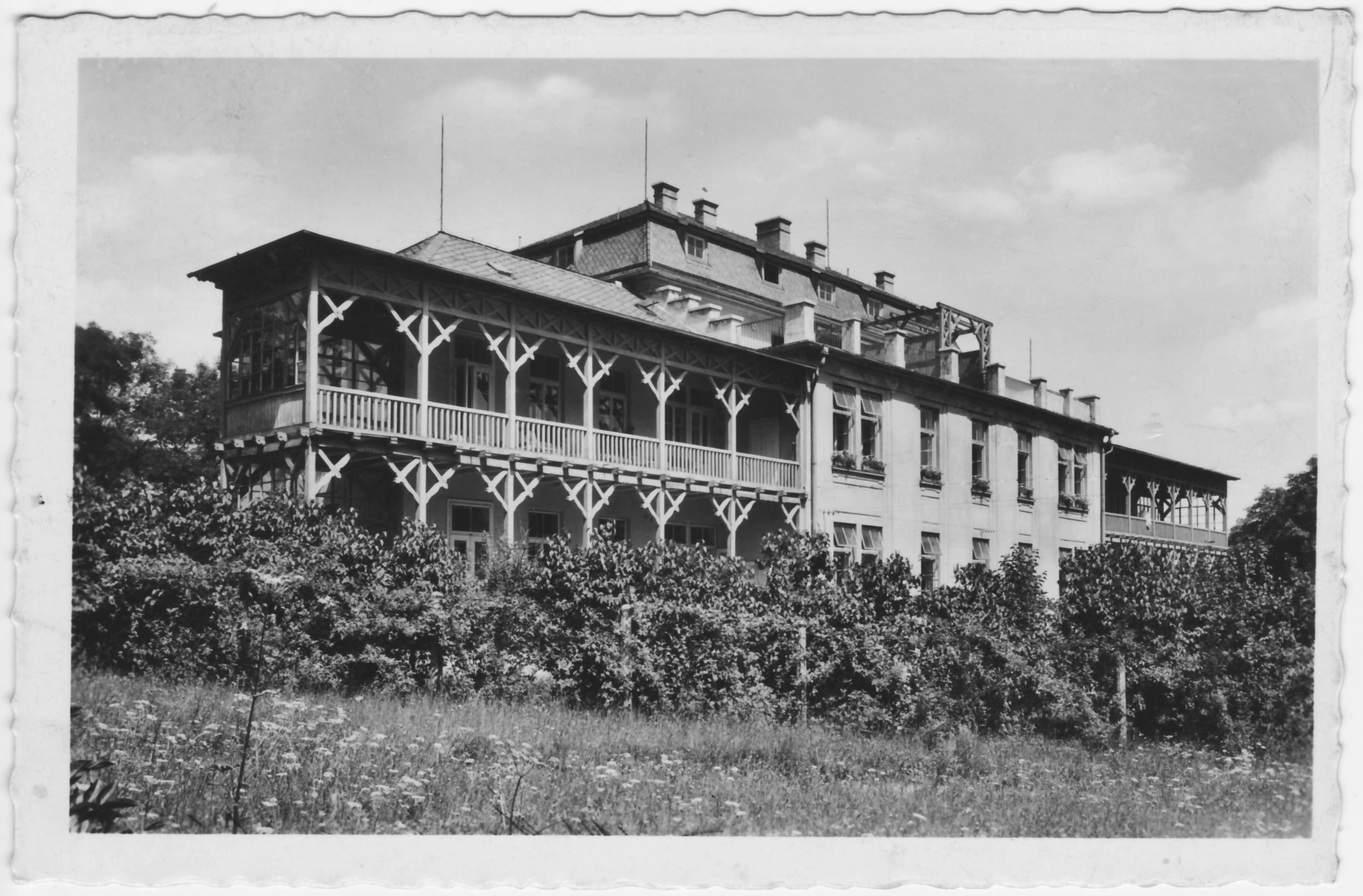 Historical postcard with the lung diseases department of Olomouc hospital (nowadays University Hospital Olomouc). It was postmarked on 6 March 1942.